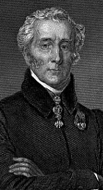 Arthur Wellesley